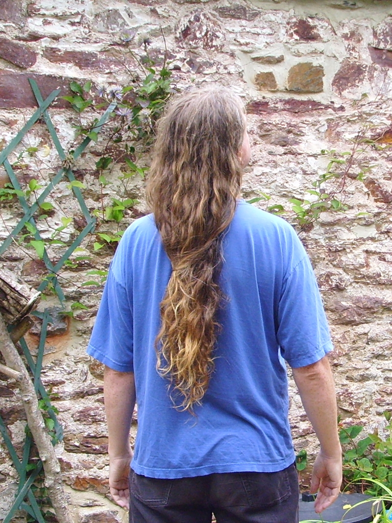 Male long hair in Western culture. Totnes, UK 2008 (Saturday afternoon, about tea time)